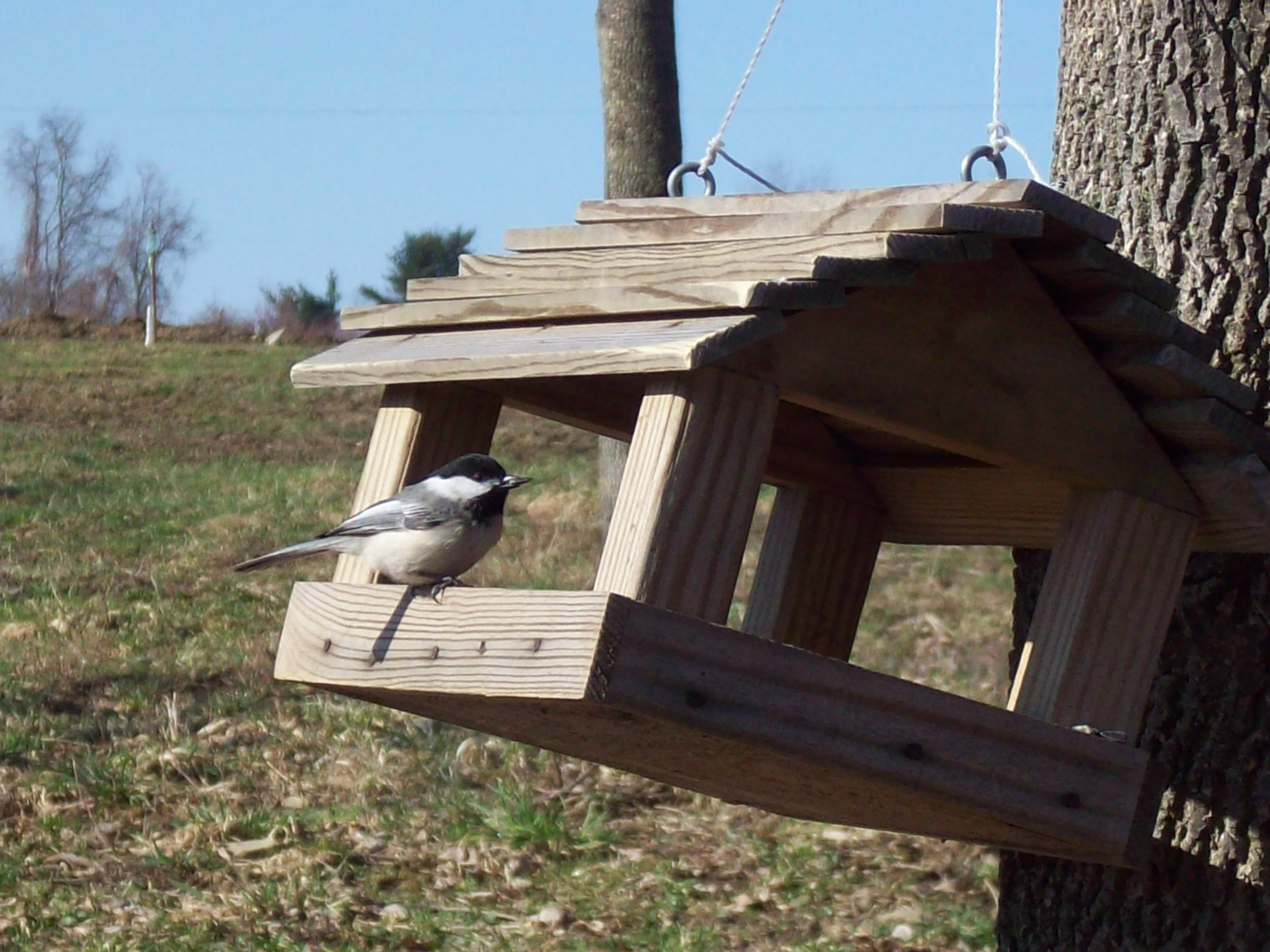 Black-capped Chickadee feeding on a platform bird feeder.